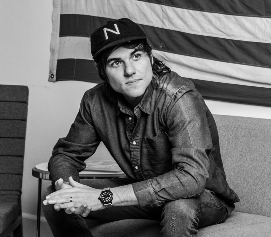 Ross Copperman